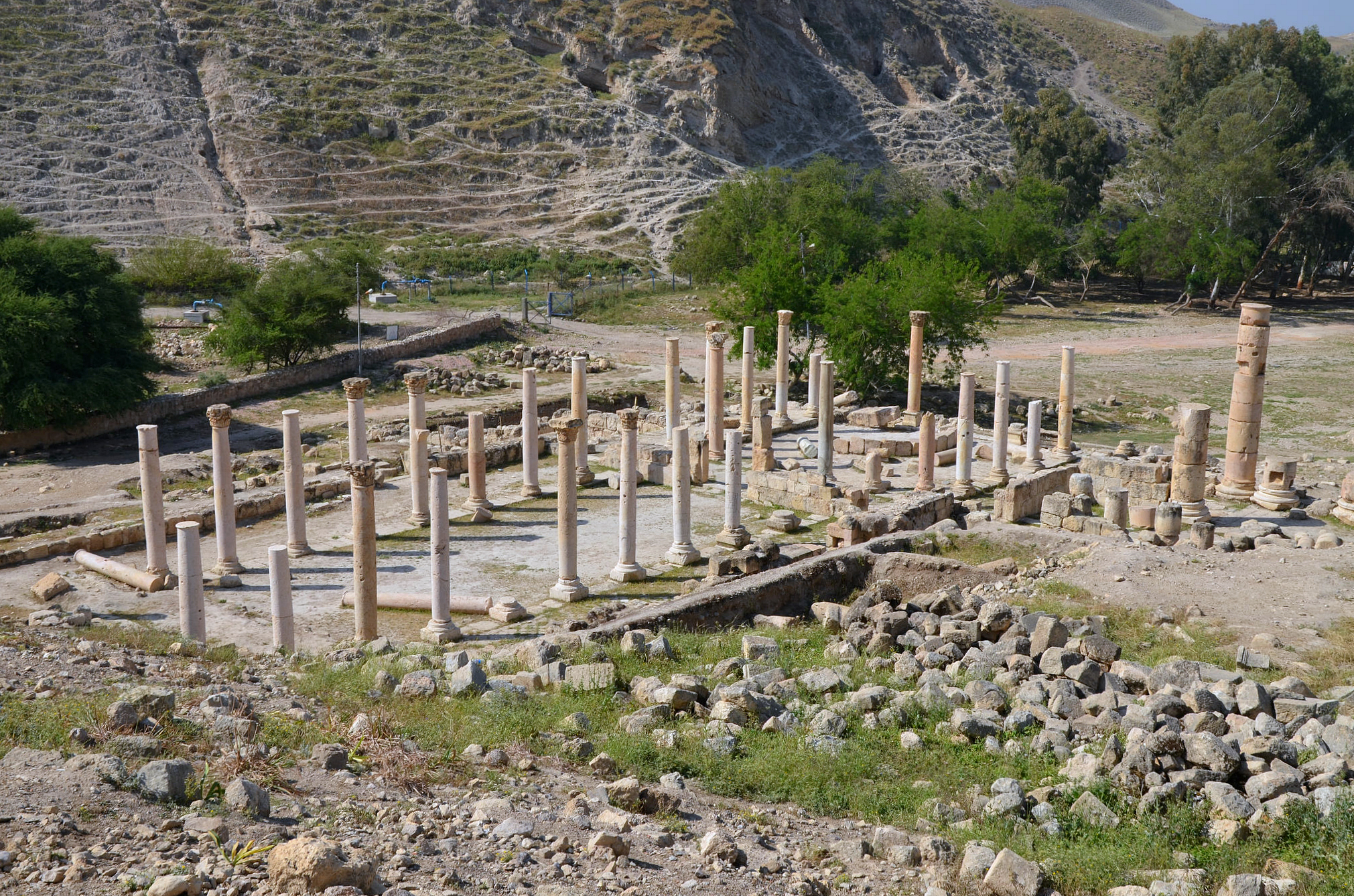 The Middle Church built atop an earlier Roman civic complex in the 5th century AD and expanded in the 6th and 7th centuries, Pella, Jordan